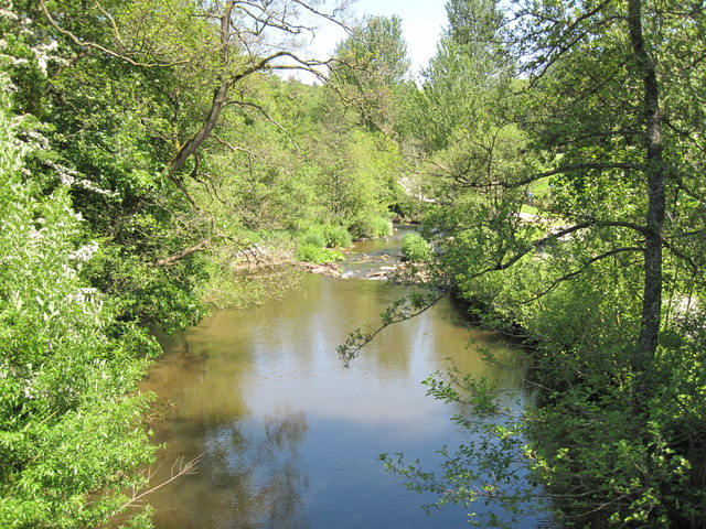 River Alyn near Loggerheads A tributary of the Dee, which has its source in Llandegla Moors.